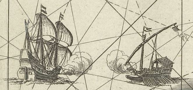 Cropped image of a bigger map, showing a galley engaging a galleon, West of the island of Ternate. North is to the right of the picture.